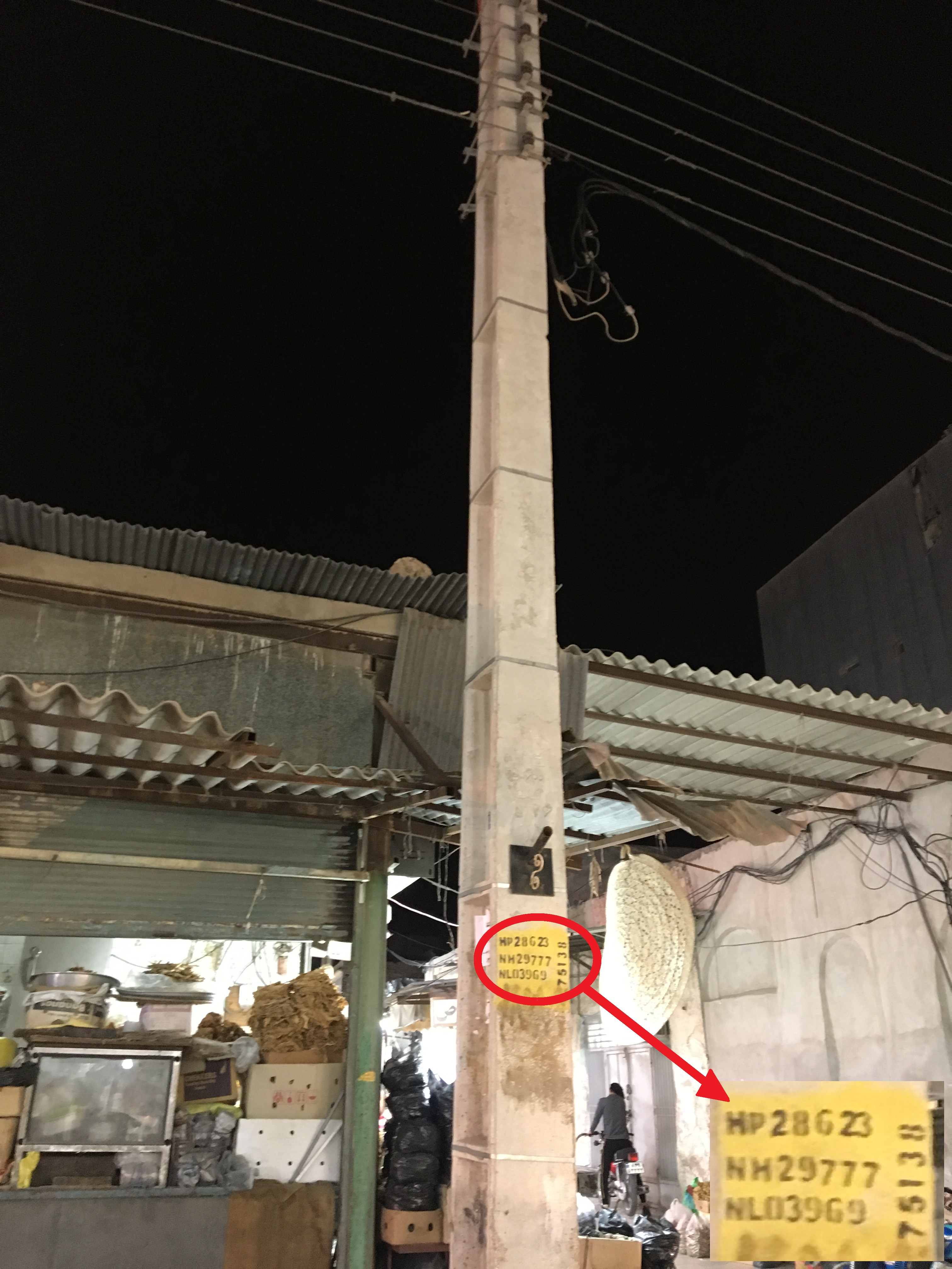 An example of using Distribution Identification Code to identify a HV pole which consists of both HV and LV networks. Power Distribution Equipment Identification label of pole is 75138HP28623 Power Distribution Equipment Identification label of HV insulators is 75138NH29777 Power Distribution Equipment Identification label of LV insulators is 75138NL03969